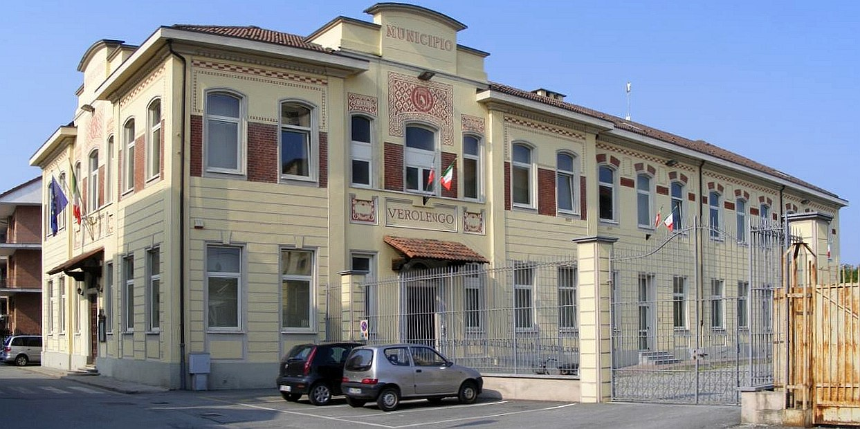 Verolengo (TO, Italy): town hall